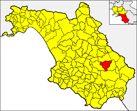 Locator map of the municipality of Monte San Giacomo (red) within the Province of Salerno